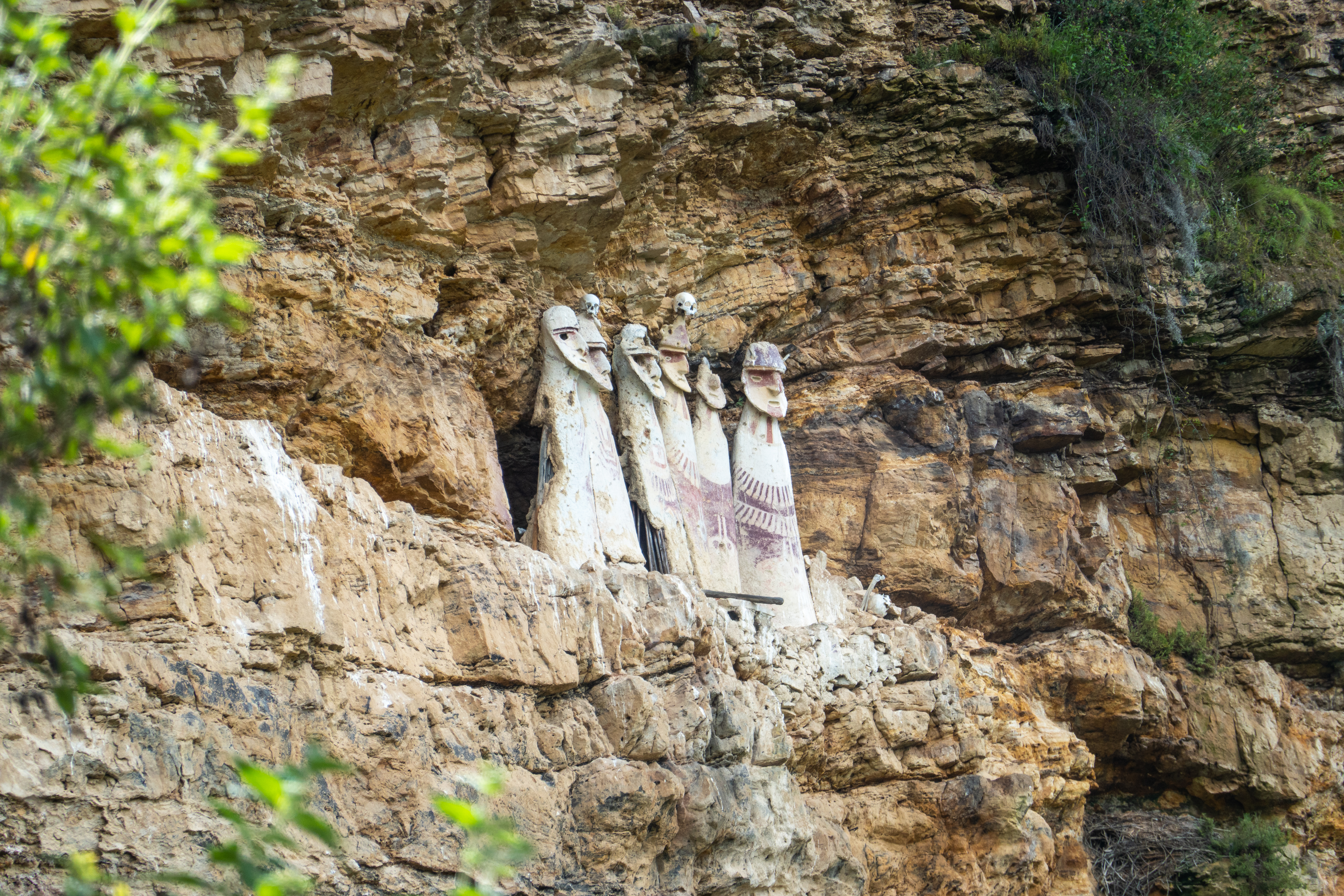 Sarcófagos de Karajía